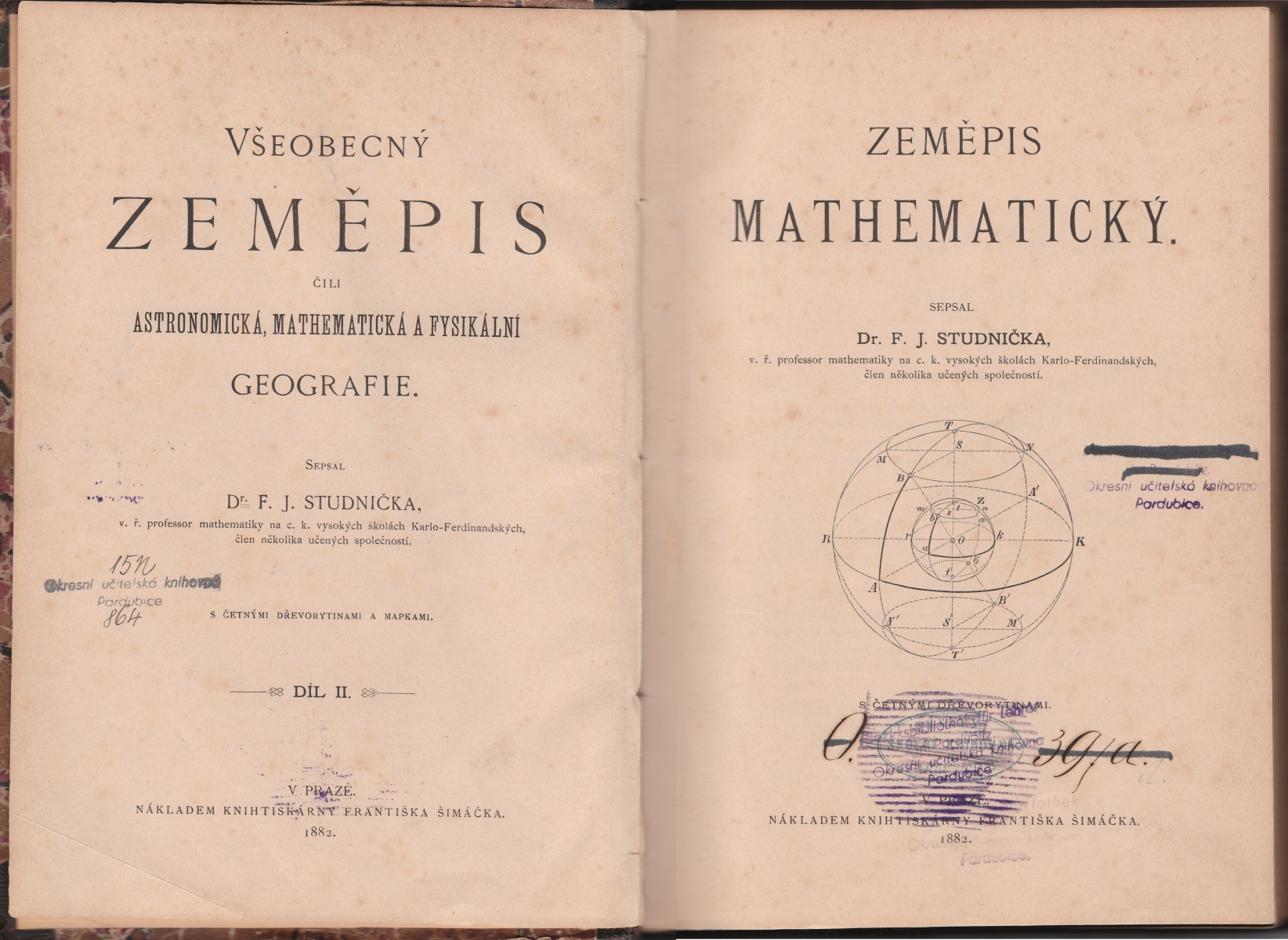 František Josef Studnička (1836-1903): Mathematical geography, Prague, 1882, title page